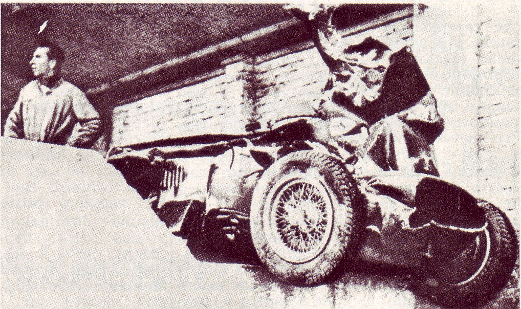 Ferrari Tipo 801 (base on NLancia D50) of Eugenio Castellotti after his fatal accident in Modena on 14 March 1957